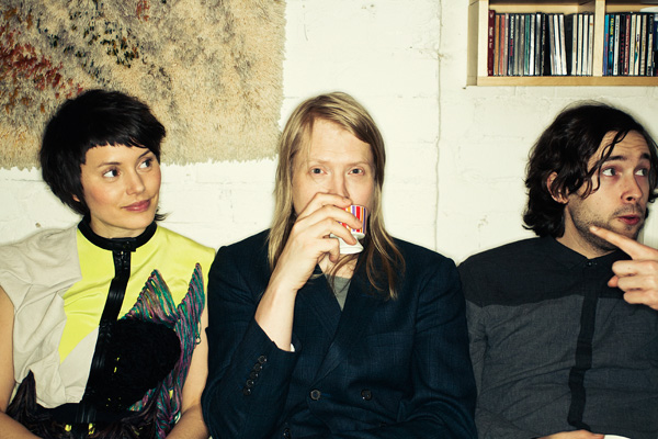 The band Husky Rescue at El Camino Helsinki studios in March 2011